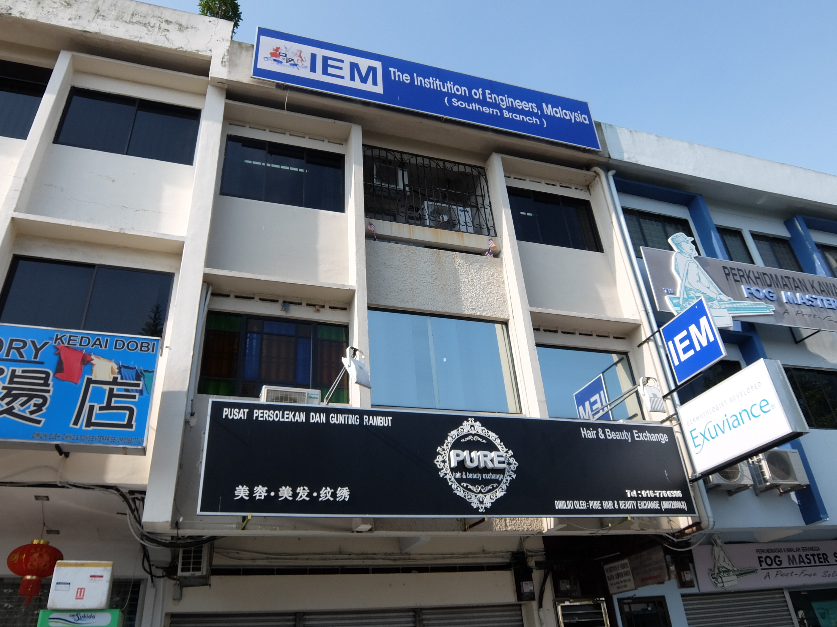 The Institution of Engineers, Malaysia (Southern Branch), Johor Bahru, Johor, Malaysia